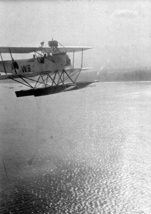 Aircraft Van Berkel W-A (a copy of Hansa-Brandenburg W.12) of the cruiser Java in the air